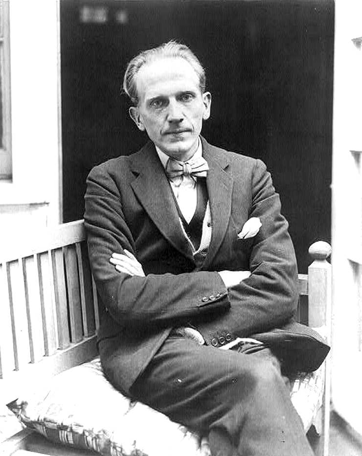 English writer A. A. Milne (1882-1956).